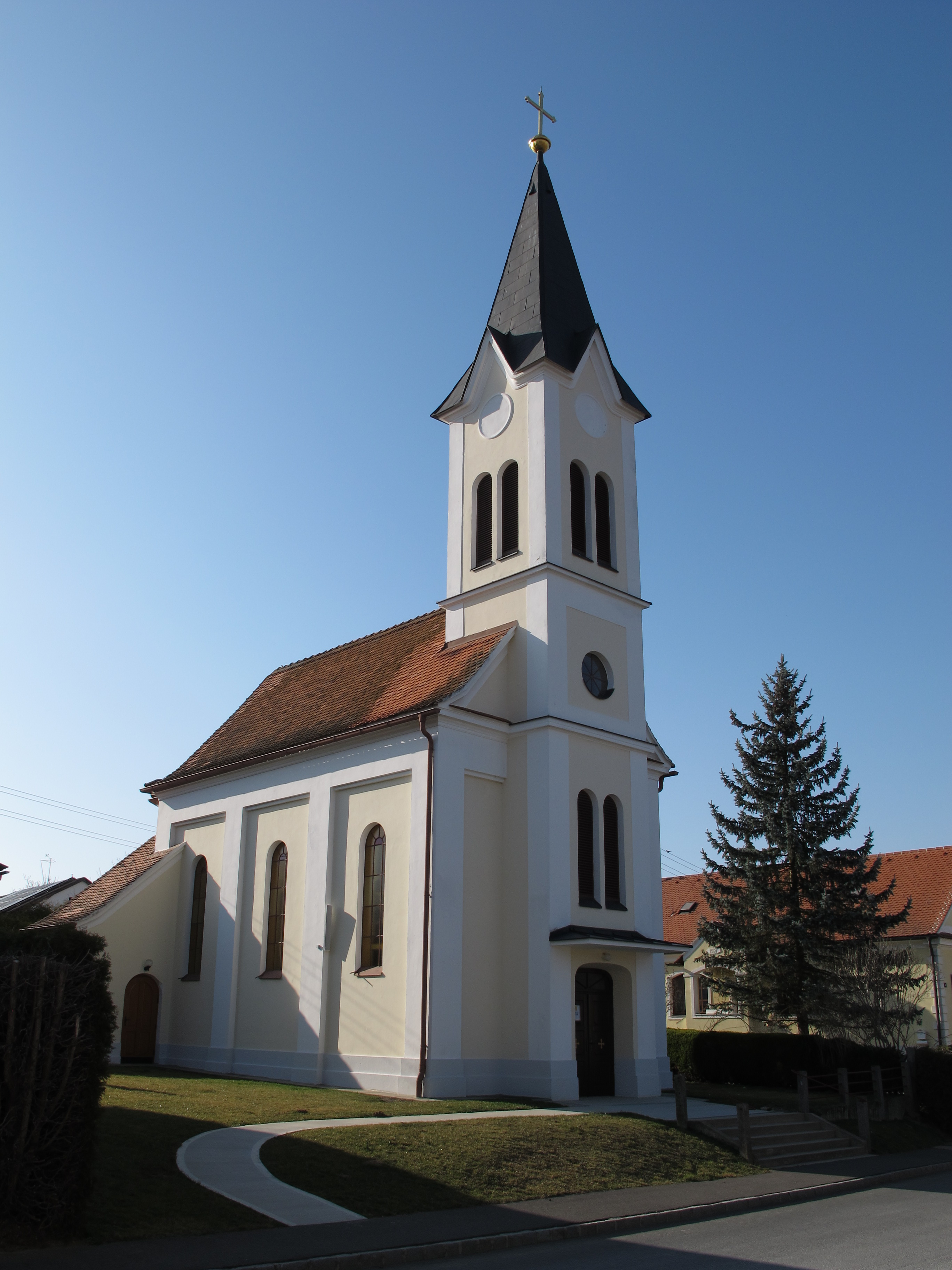 Kirche Luising